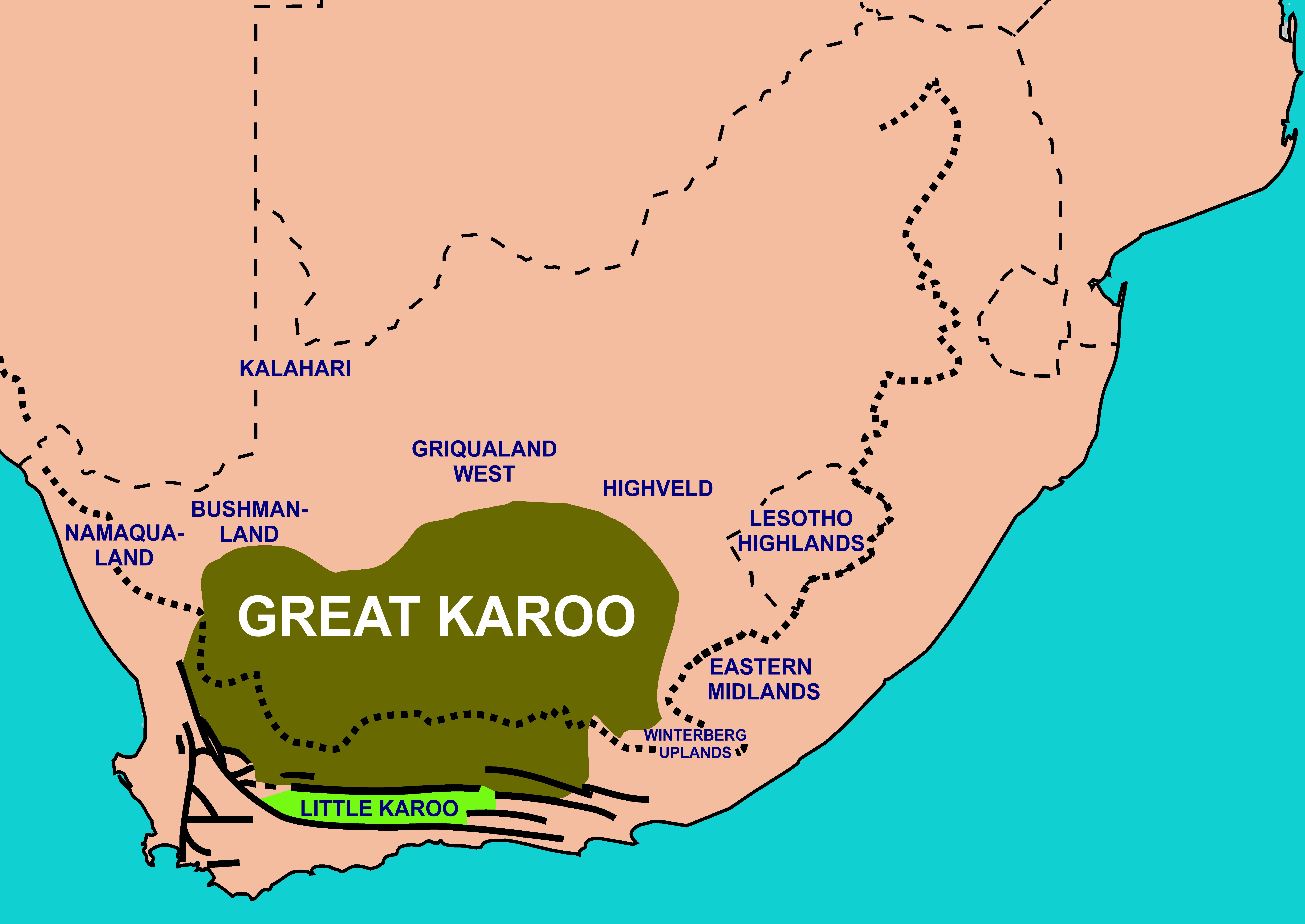 Map of the Karoo (Great Karoo and Little Karoo) in South Africa, in relation to the Cape Fold Mountains and the Great Escarpment